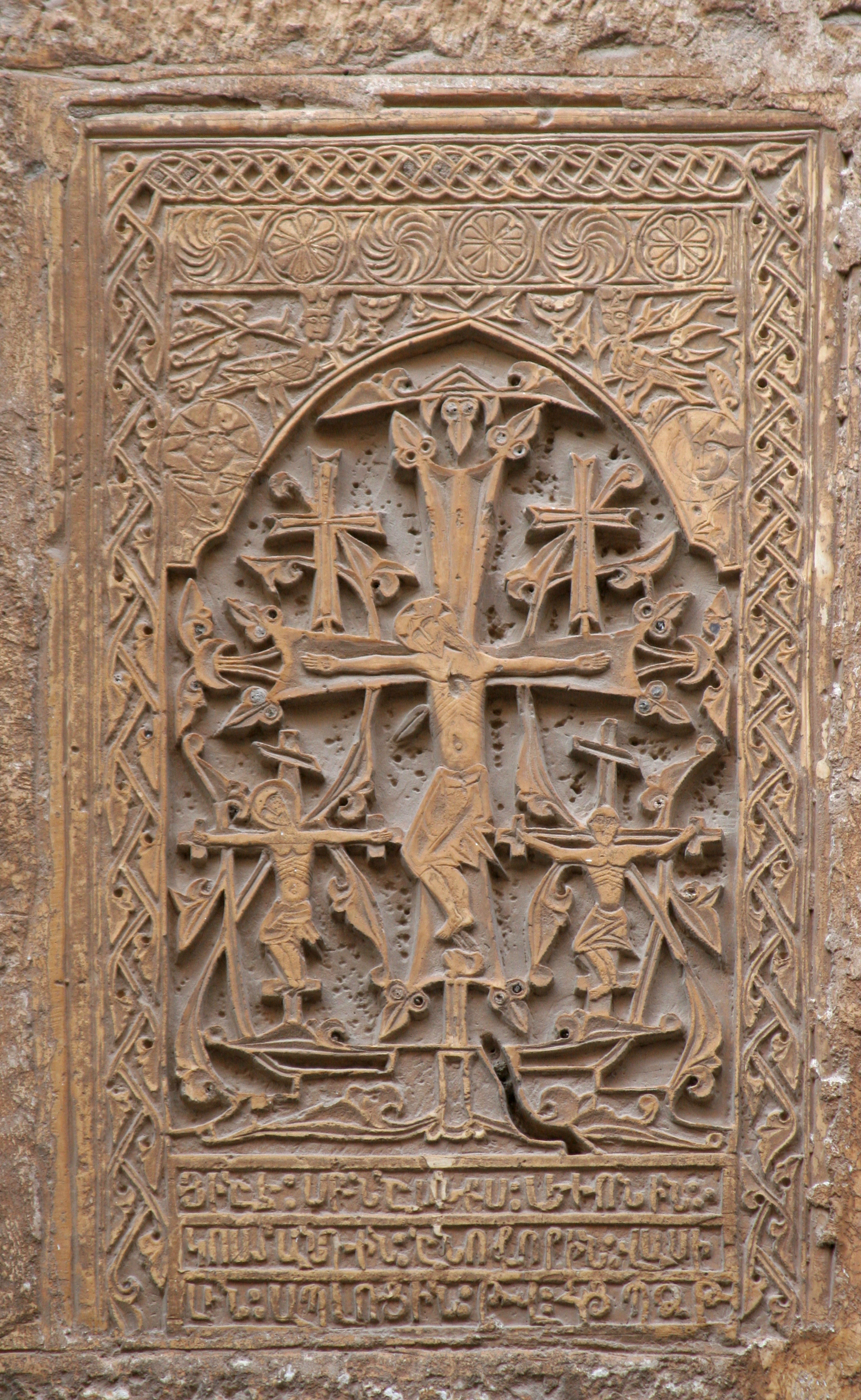 An Amenaprkitch-style Armenian khackar (cross stone) at the Cathedral of Saint James in the Armenian Quarter of Jerusalem, 1440 (year ՊՁԹ - 889).